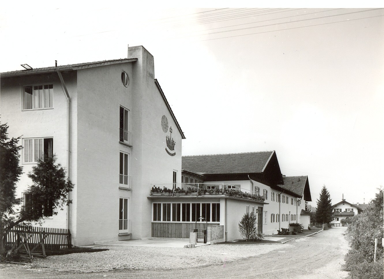 Entrance to the German Center for Pediatric and Adolescent Rheumatology, Garmisch-Partenkirchen